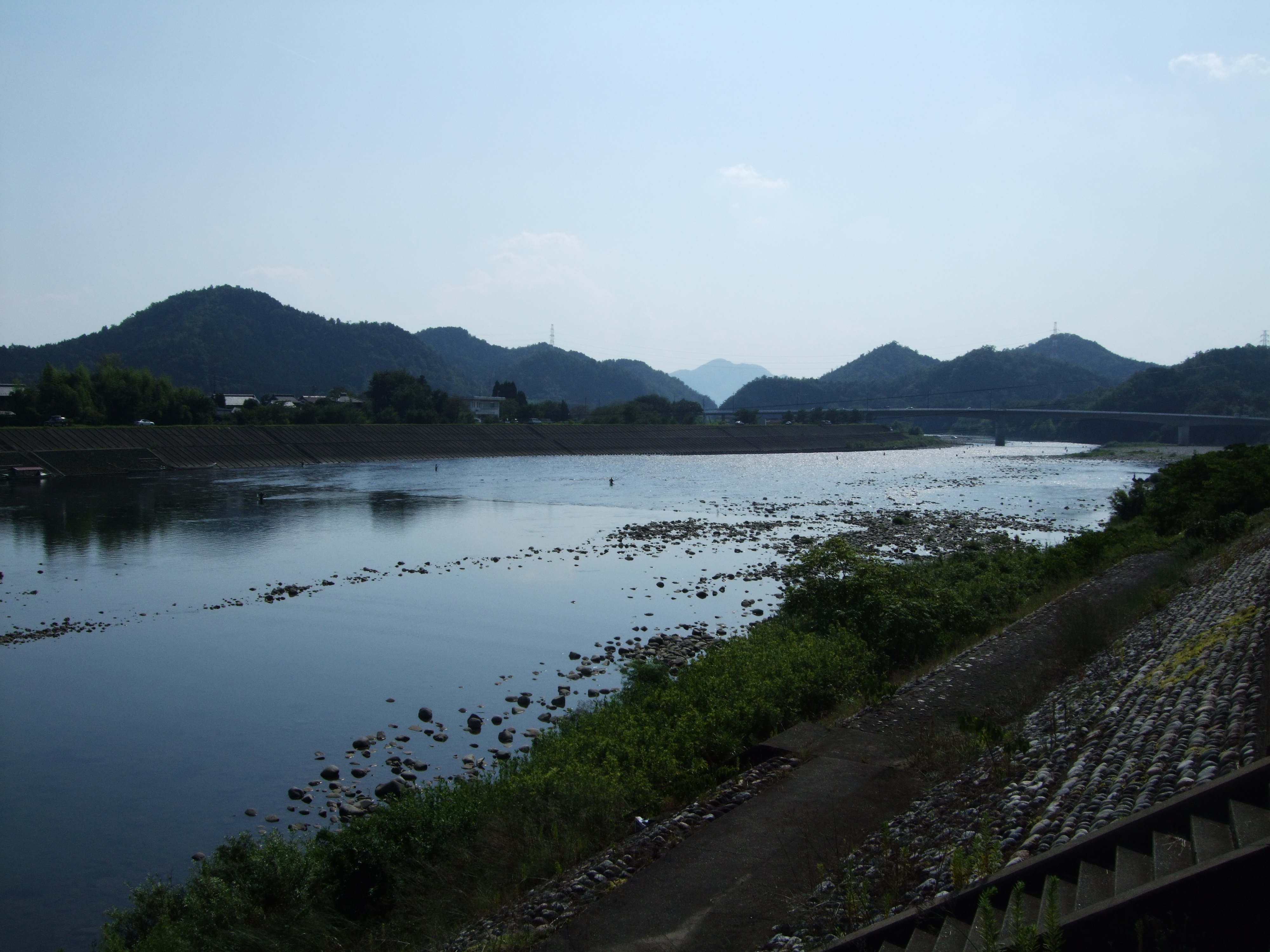 Nagara river in Seki city,Gifu prefecture,Japan.Oze Ukai is held near here.